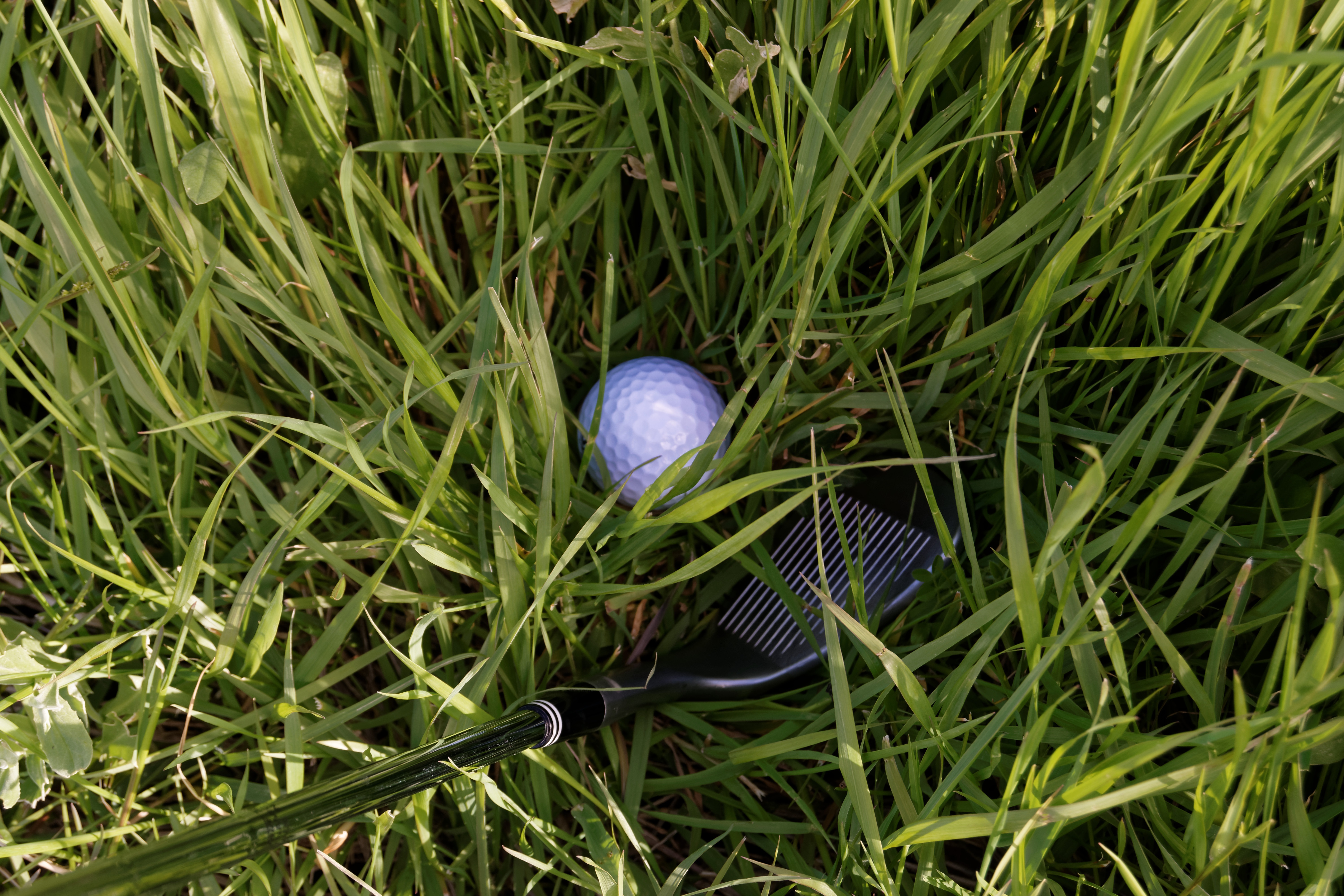 Golf-ball in the rough image.